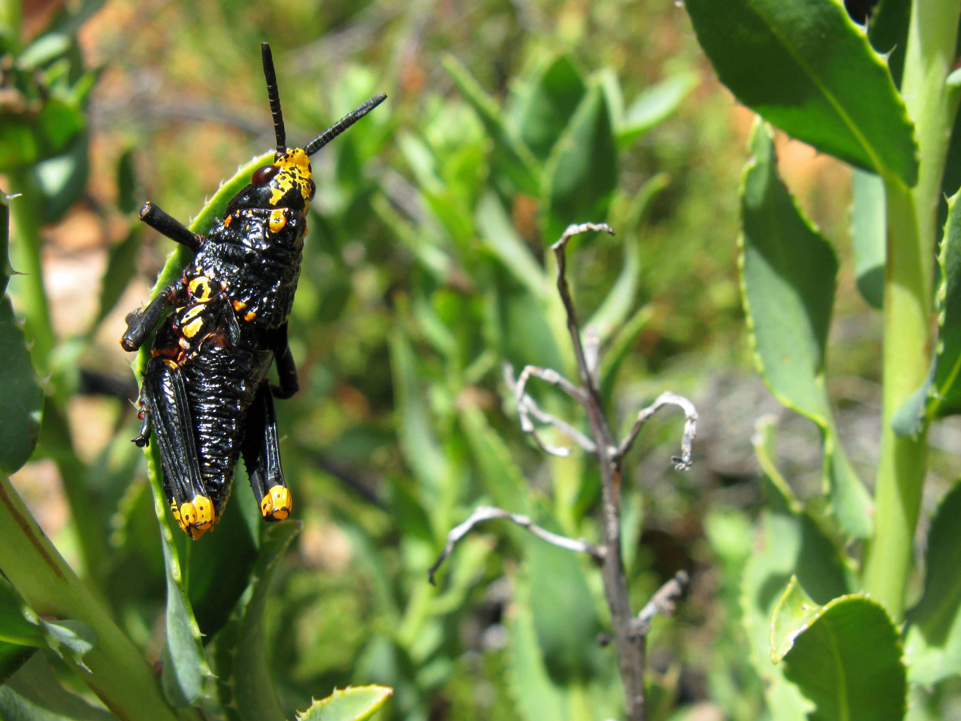 Family Pyrgomorphidae, the stinking or foam grasshoppers. Species probably Dictyophorus spumans. Adults have patterns in red and black. Juveniles yellow and glack.